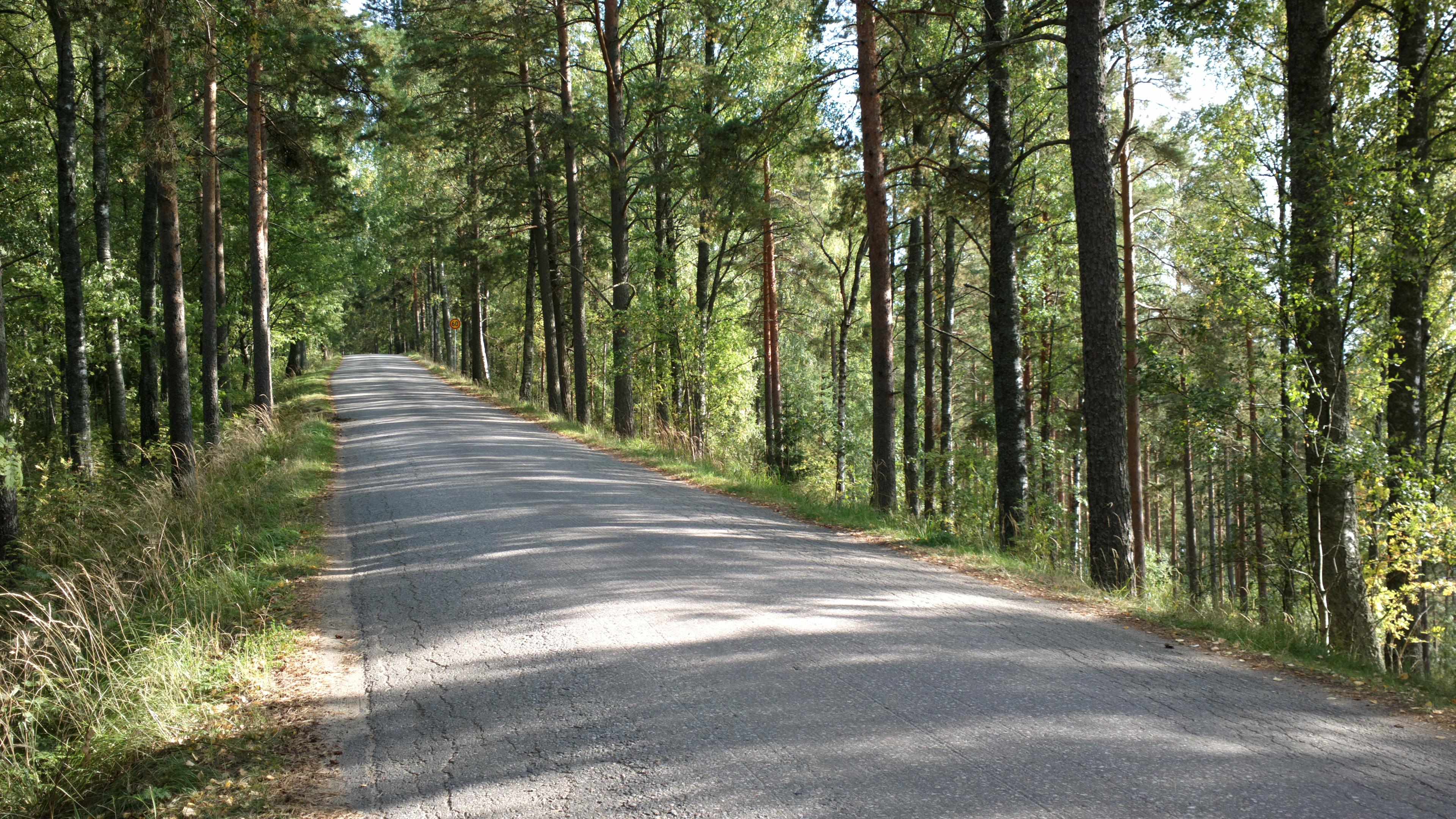 Vehoniemenharjuntie road on the top of Vehoniemenharju esker in Kangasala, Finland.